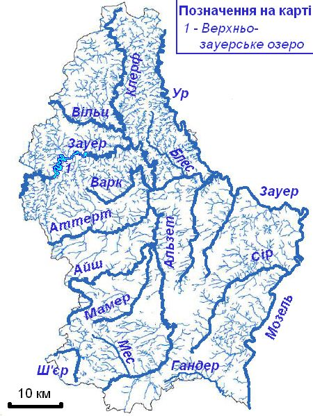 Map of rivers of Luxembourg with the main rivers in bold on the Ukrainian language.